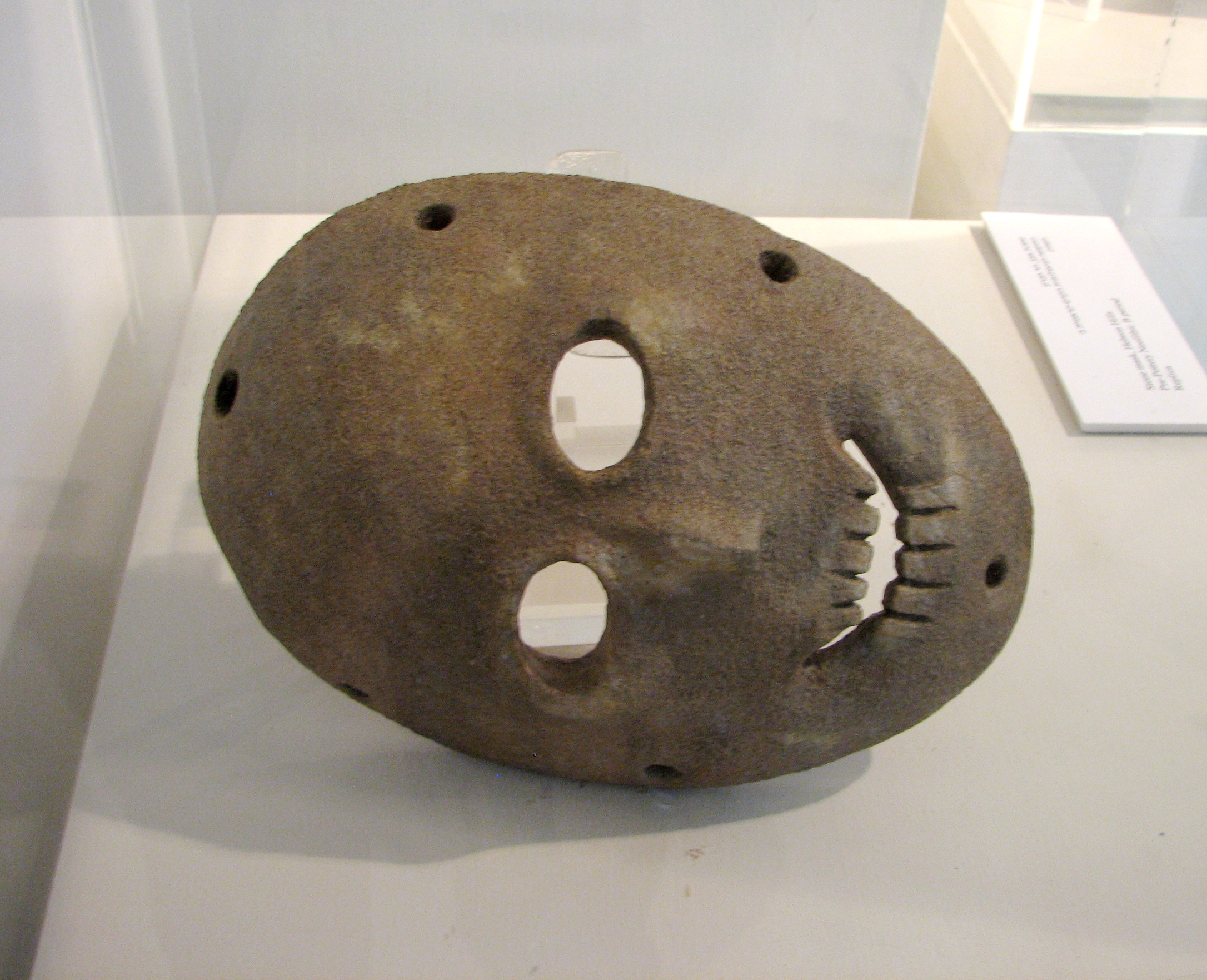 Moshe Stekelis Museum of Prehistory exhibition. Stone mask from Hebron Hills, Pre-Pottery Neolithic B period, replica